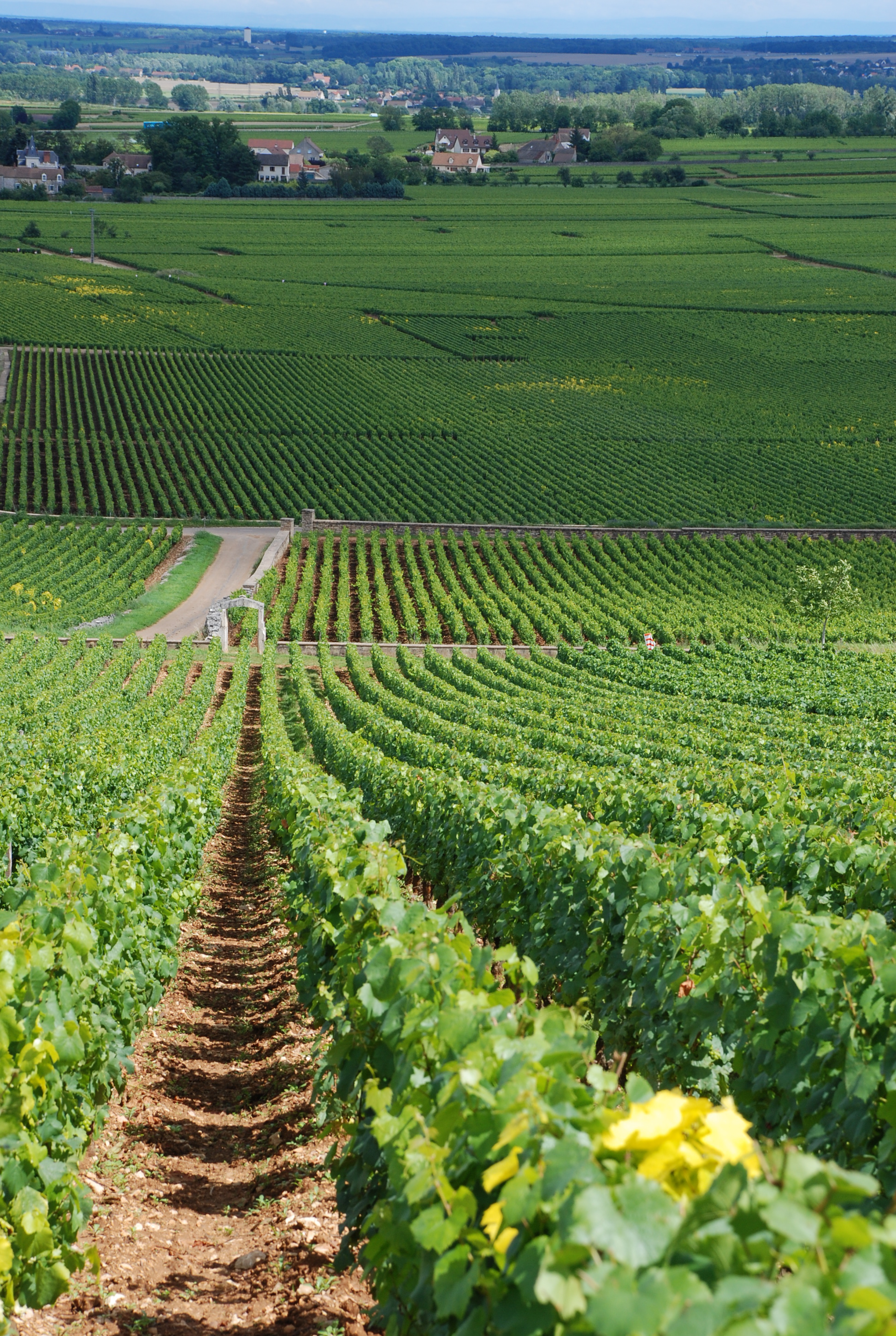 The vineyards of Chevalier-Montrachet, Montrachet, and Bâtard-Montrachet in Puligny-Montrachet, Burgundy, France. Taken by Jonathan Caves July 2007